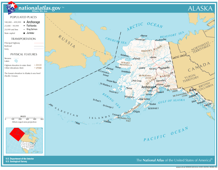 Reference Map for the U.S. state of Alaska.